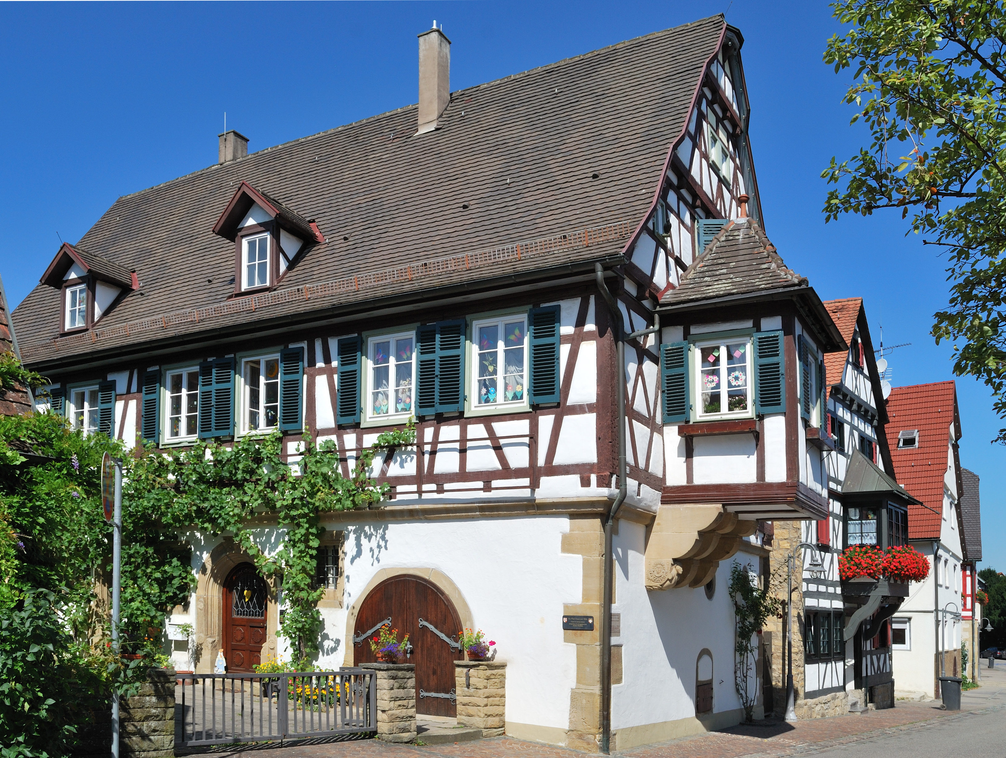 Schöckingen, evangelical vicarage. The timber framed building originates from 1594. Baden-Württemberg, Germany.